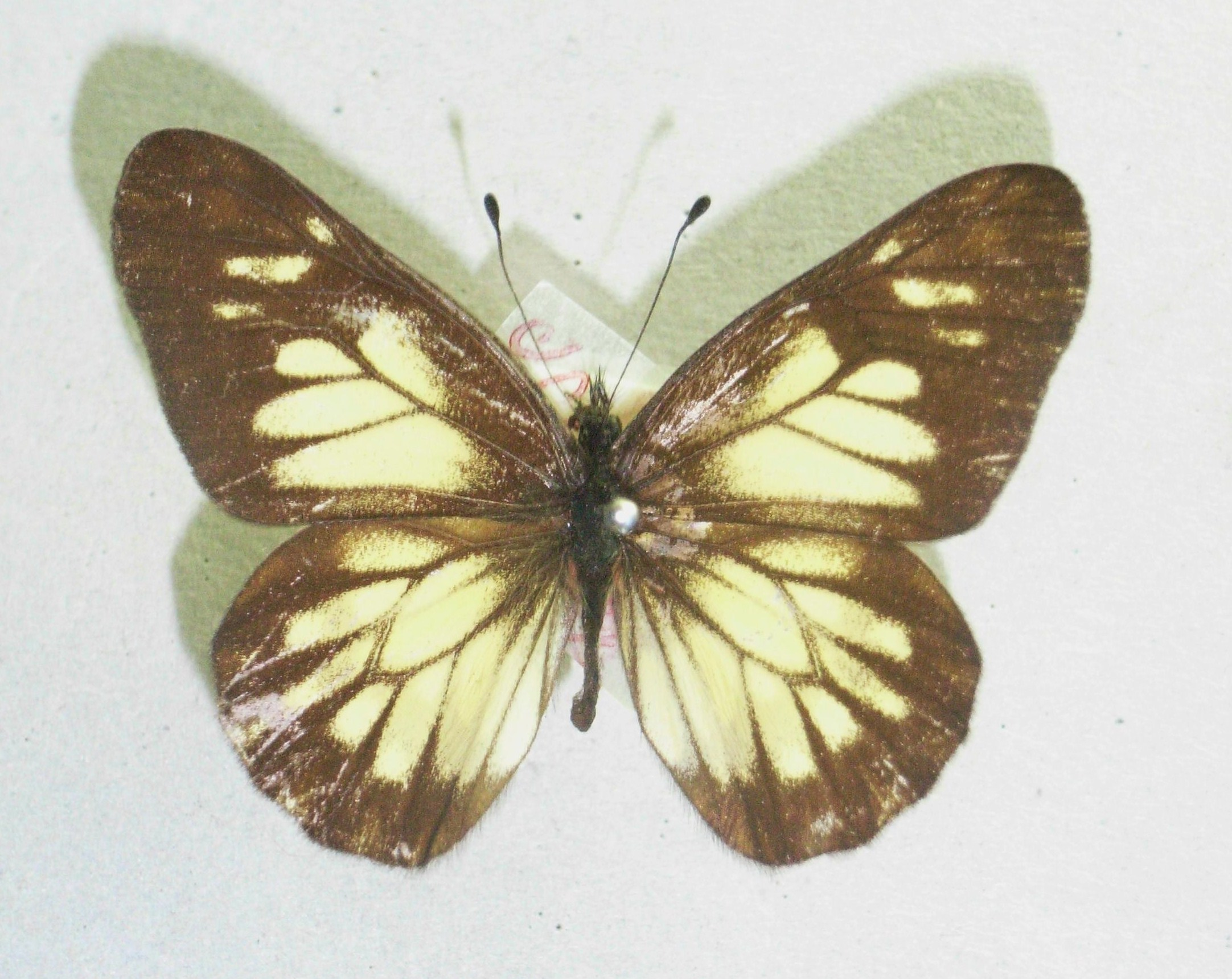 Catasticta straminea:Pierinae:Pieridae